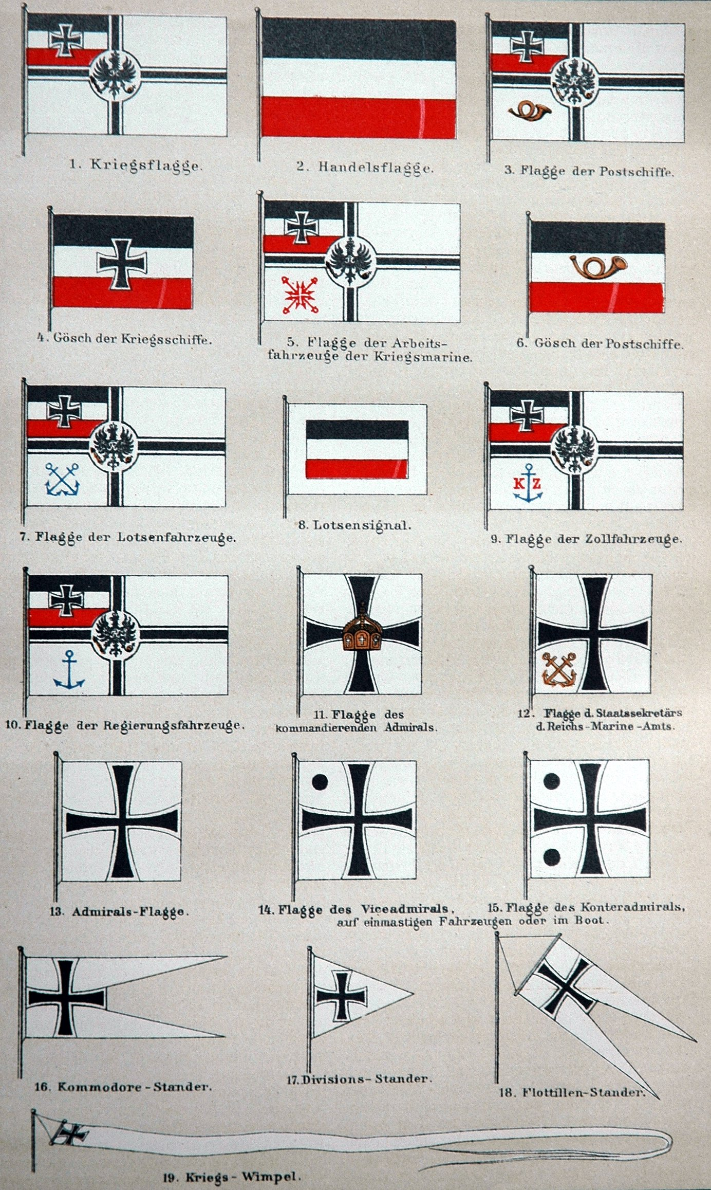 German Empire flags: War flag Trade flag Postal flag Jack of war ships Flag of work vehicles of the navy Jack of postal ships Pilot vehicle flag Pilot vehicle signal Flag of customs ships Flag of government vehicles Flag of the commanding admiral Flag of the state secretary Admiral's flag Vice admiral's flag Rear admiral's flag on one-mast ships or boats Commodore pendant Division's pendant Flotilla's pendant War pennant